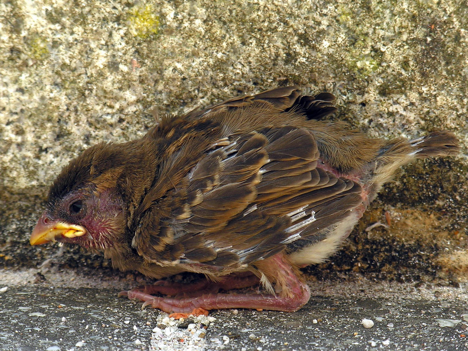 Juvenile House Sparrow. Dumbría, A Coruña, Spain.